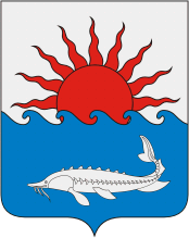 Primorsko-Akhtarsk rayon (Krasnodar krai), coat of arms